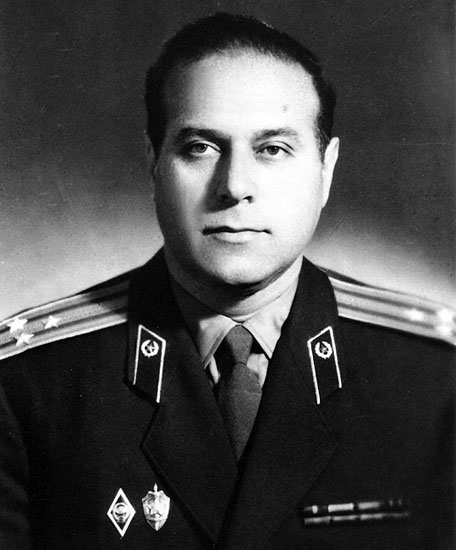 Colonel of KGB Heydar Aliyev